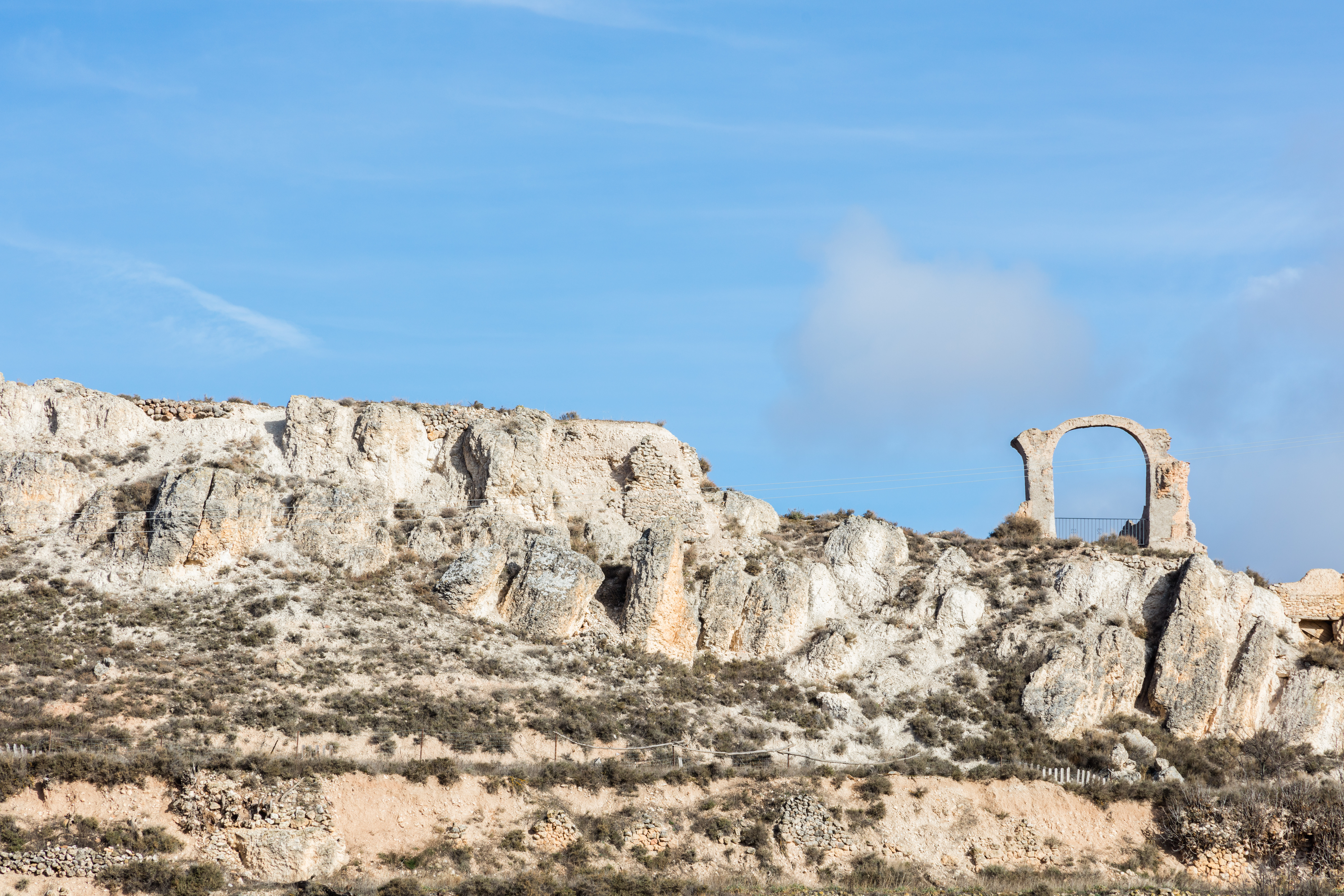 Ruins of hermitage, Deza, Soria, Spain